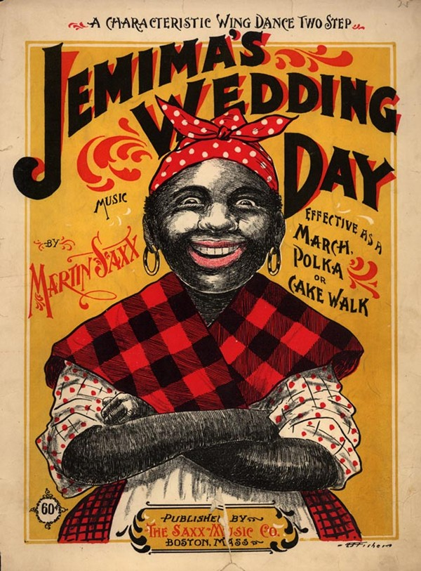 "Jemima's Wedding Day: Cake Walk. Martin Saxx (words by Jere O'Halloran). Boston, MA: Saxx Music Co., 1899 sheet music cover.